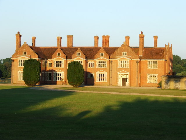 Ampton Hall in the sunlight Ampton Hall caught in the ray of the setting sun Ampton Suffolk.